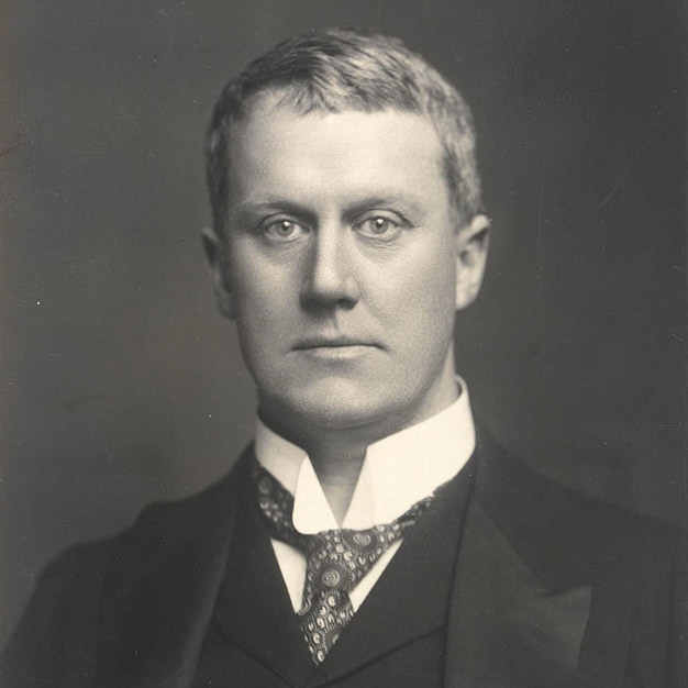 George Morrison (1862-1920) was an Australian journalist and adventurer active in China.